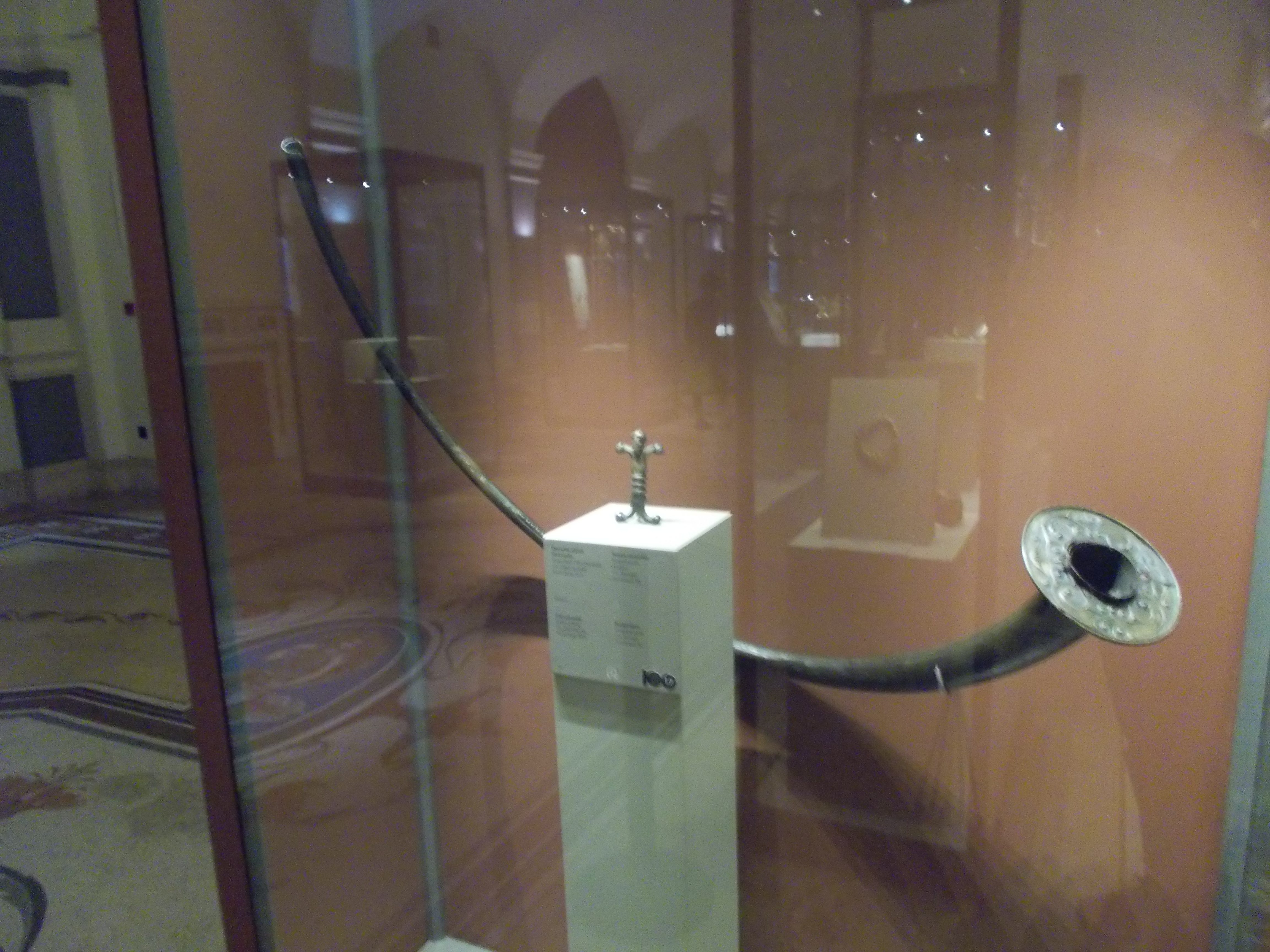 The famous ceremonial Trompet found in the 18th Century in the Loughnashade Lake near Armagh, NI (Irish National Museum, Dublin), Origin: 1. Century BC